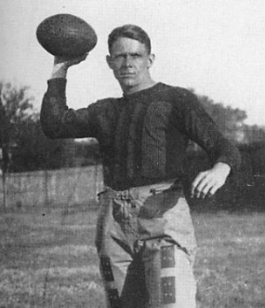 Vanderbilt Commodores quarterback Bill Spears circa. 1927. He is a member of the College Football Hall of Fame. This work is in the public domain because it was published in the United States between 1923 and 1963 and although there may or may not have been a copyright notice, the copyright was not renewed. Unless its author has been dead for the required period, it is copyrighted in the countries or areas that do not apply the rule of the shorter term for US works, such as Canada (50 pma), Mainland China (50 pma, not Hong Kong or Macao), Germany (70 pma), Mexico (100 pma), Switzerland (70 pma), and other countries with individual treaties. See Commons:Hirtle chart for further explanation. This work is in the public domain in the United States because it was published in the United States between 1923 and 1977 without a copyright notice. See this page for further explanation. Note that it may still be copyrighted in jurisdictions that do not apply the rule of the shorter term for US works (depending on the date of the author's death), such as Canada (50 p.m.a.), Mainland China (50 p.m.a., not Hong Kong or Macao), Germany (70 p.m.a.), Mexico (100 p.m.a.), Switzerland (70 p.m.a.), and other countries with individual treaties.